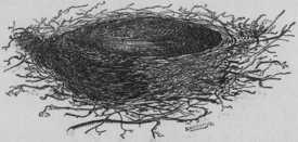 Stitch bird/Hihi (Notiomystis cincta) nest.